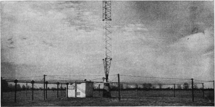 Base of antenna mast of AM radio station KTBS (now KEEL) in Shreveport, Louisiana, USA, showing a counterpoise ground screen. The ground screen is a network of horizontal radial copper wires extending out from the base of the mast, suspended on posts above the white helix house, attached to the antenna's ground system. Its purpose is to prevent excessive ground currents, reducing transmitter power dissipated in ground resistance. A counterpoise is similar to a ground screen but extends out further, up to a quarter-wavelength, replacing the ground wires entirely. Alterations to image: lightened dark areas to bring out ground screen more clearly against sky.